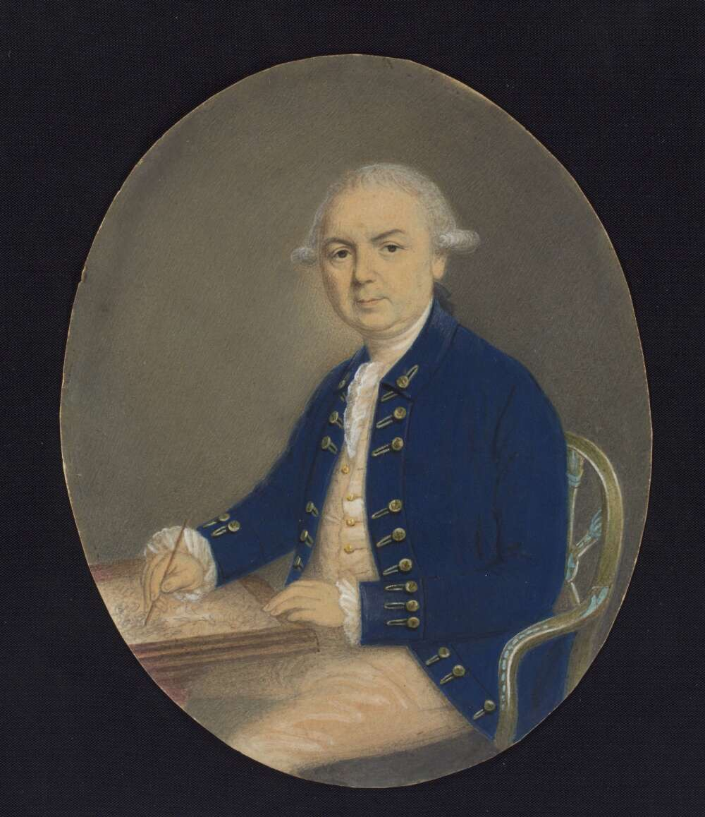 Title: Portrait of Samuel Wallis. Type: Watercolour and Pencil. Description: By Henry Stubble (n.d.), painted ca. 1785. Location: National Library of Australia. Physical description: Oval image 13.6 x 11 cm. Digital Versions: jpeg file